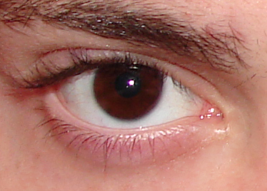 "Indian Eye." Author: Arctice.